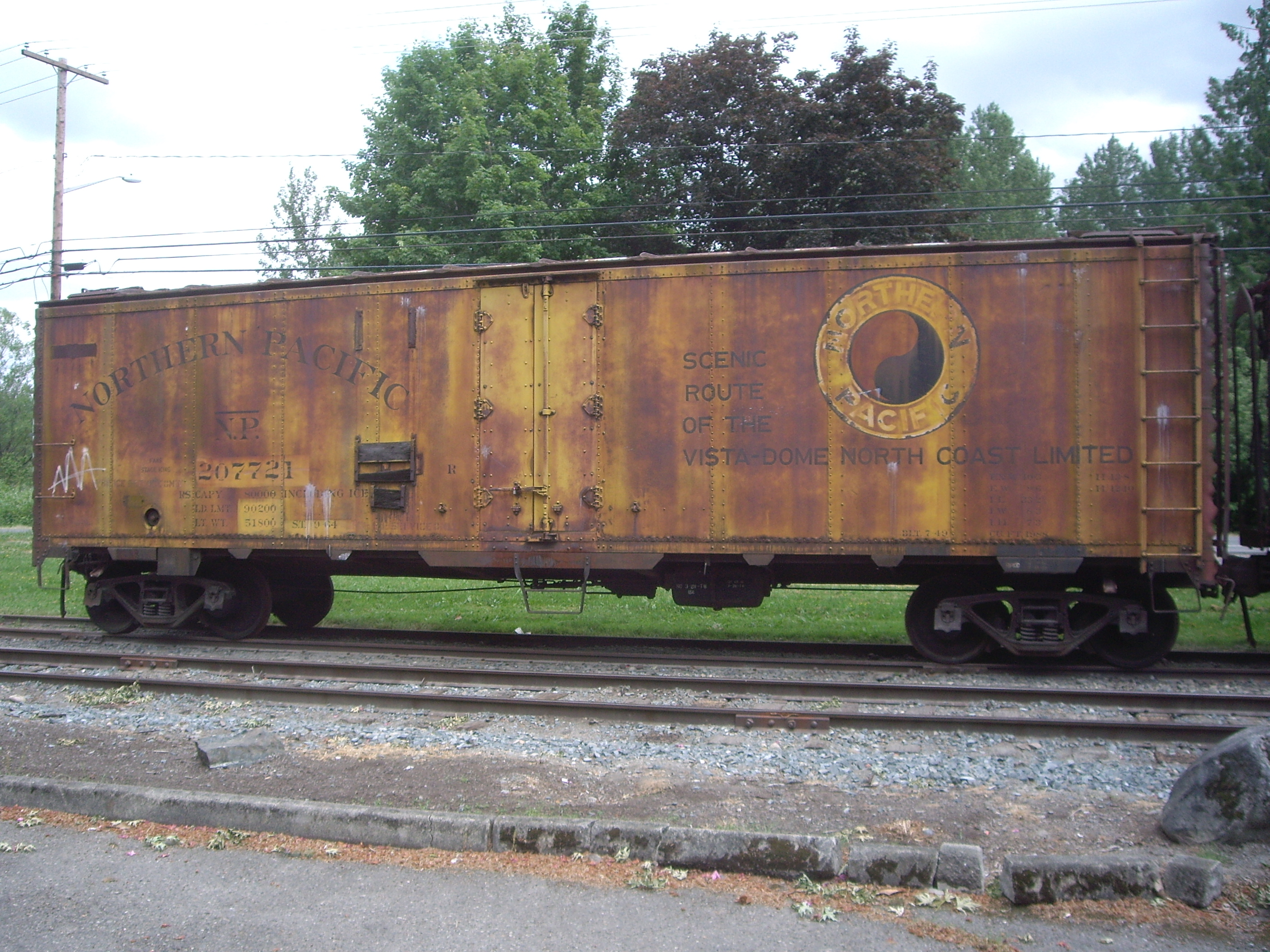 An old Northern Pacific Railway refrigerator car